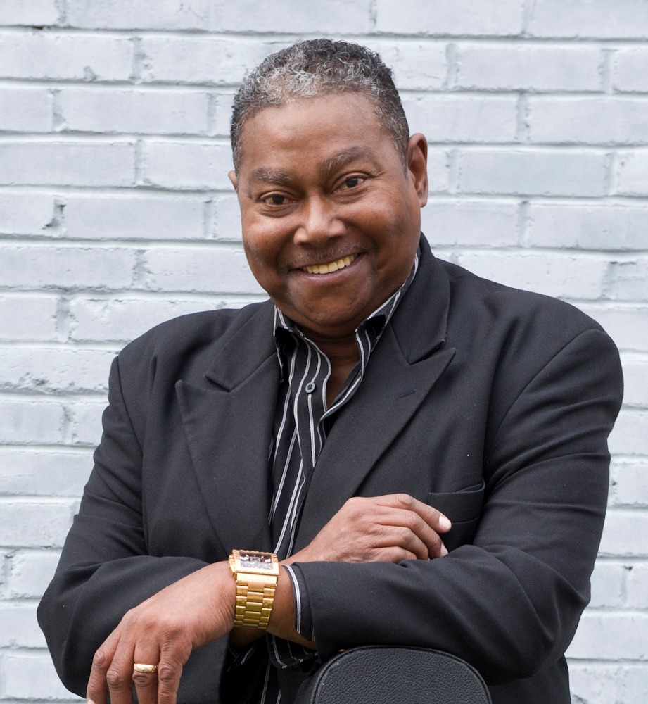 Skip Pitts standing outside Stax Records in Memphis, TN.